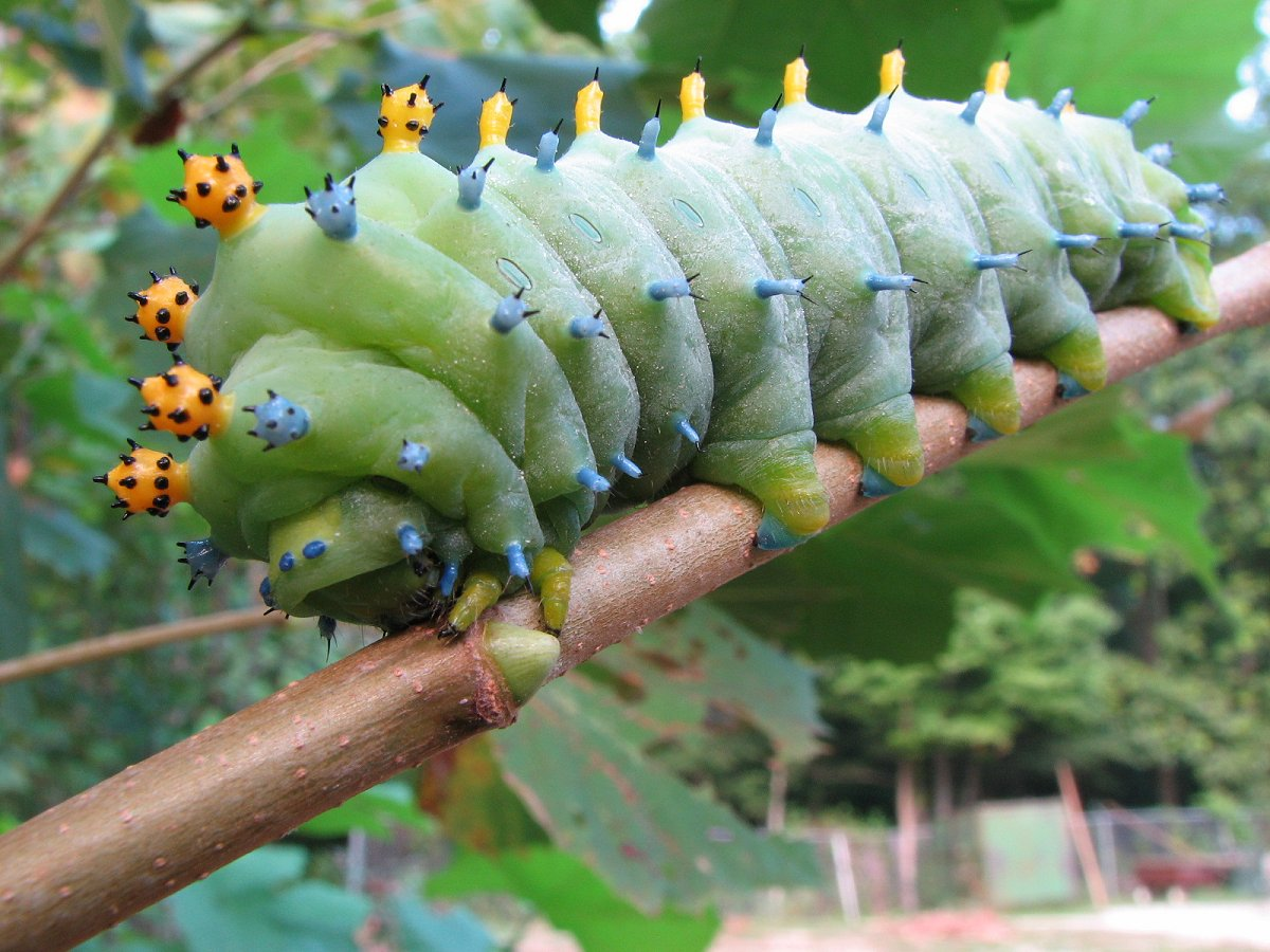 Hyalophora cecropia caterpillar